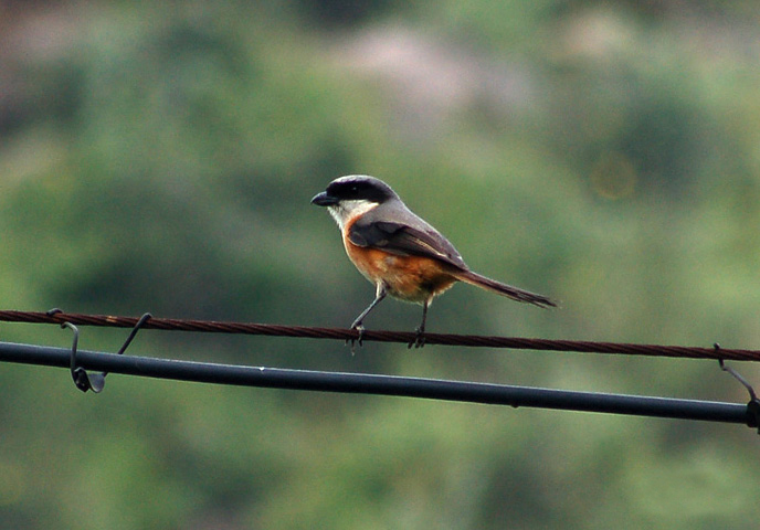 Grey-backed Shrike Lanius tephronotus, Caohai, Weining, Guizhou, China